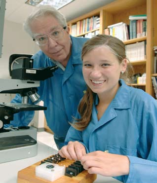 Natalie Panek, NASA Intern, setting up a transformer for wire fatigue testing with mentor, Dr. Henning Leidecker. "All photos used in this publication are credited to NASA except where indicated"